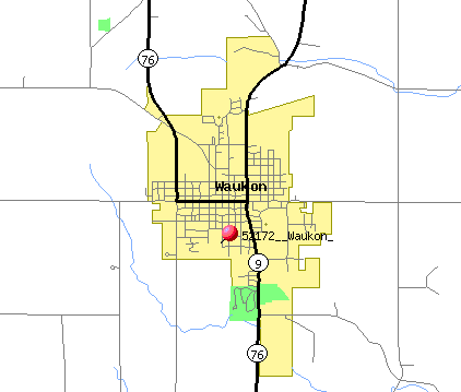 US Census Bureau